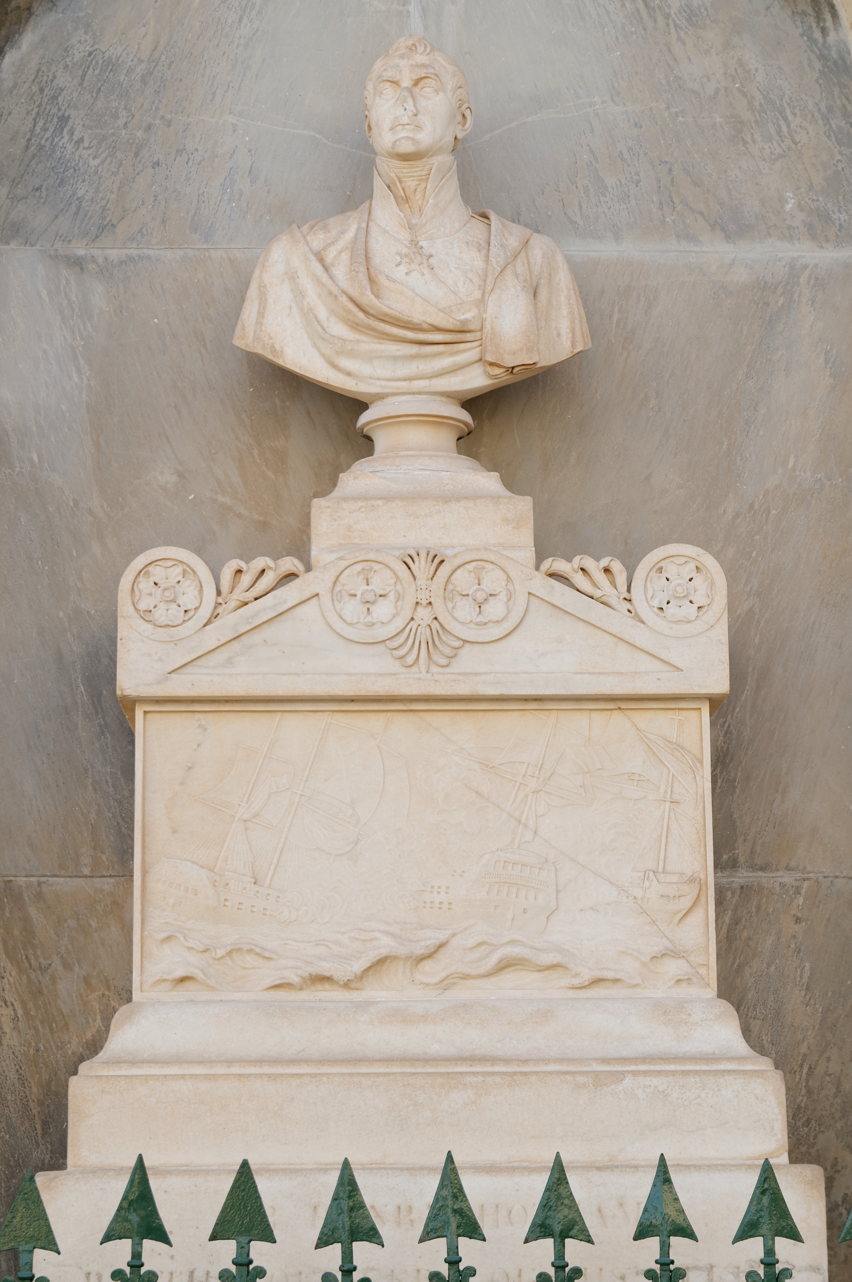 Public monument to Vice Admiral Sir Henry Hotham KCB in Upper Barrakka Gardens in Valletta, Malta.